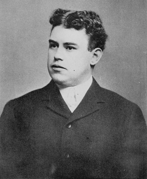 Frank J. LeFevre, New York Congressman